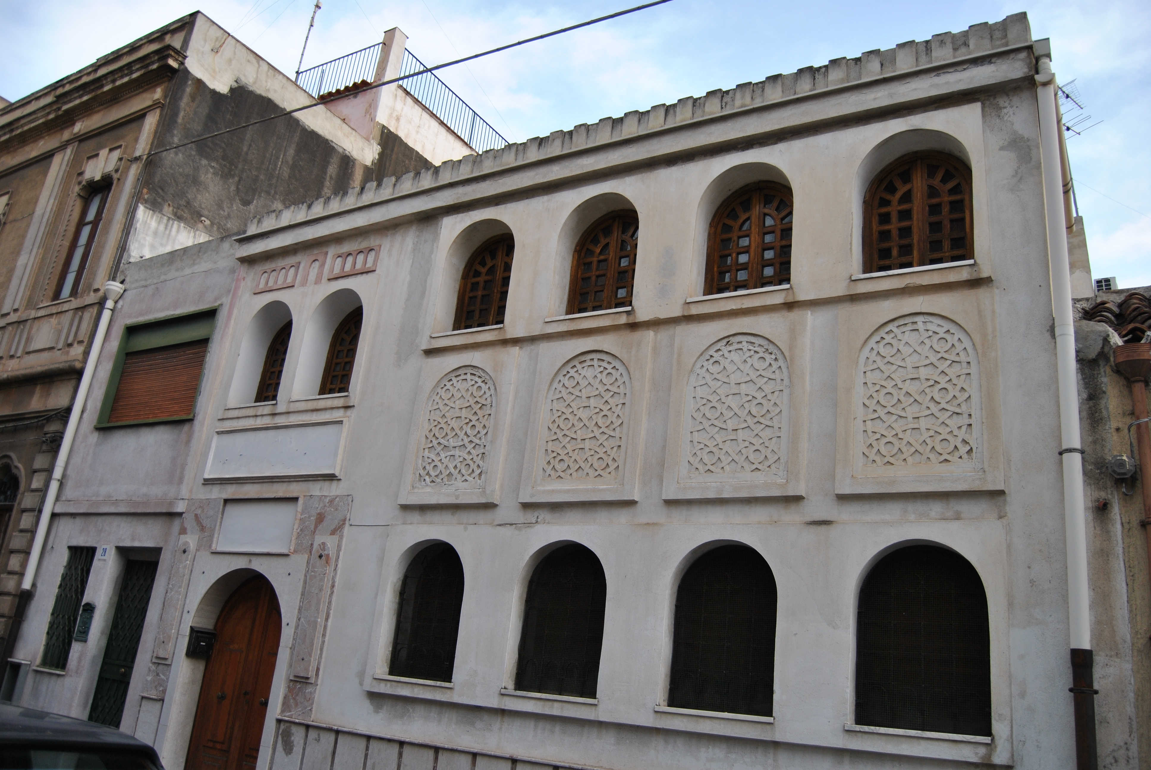 Ex moschea di via Castromarino (Catania), 1980. Prima moschea d'Italia.